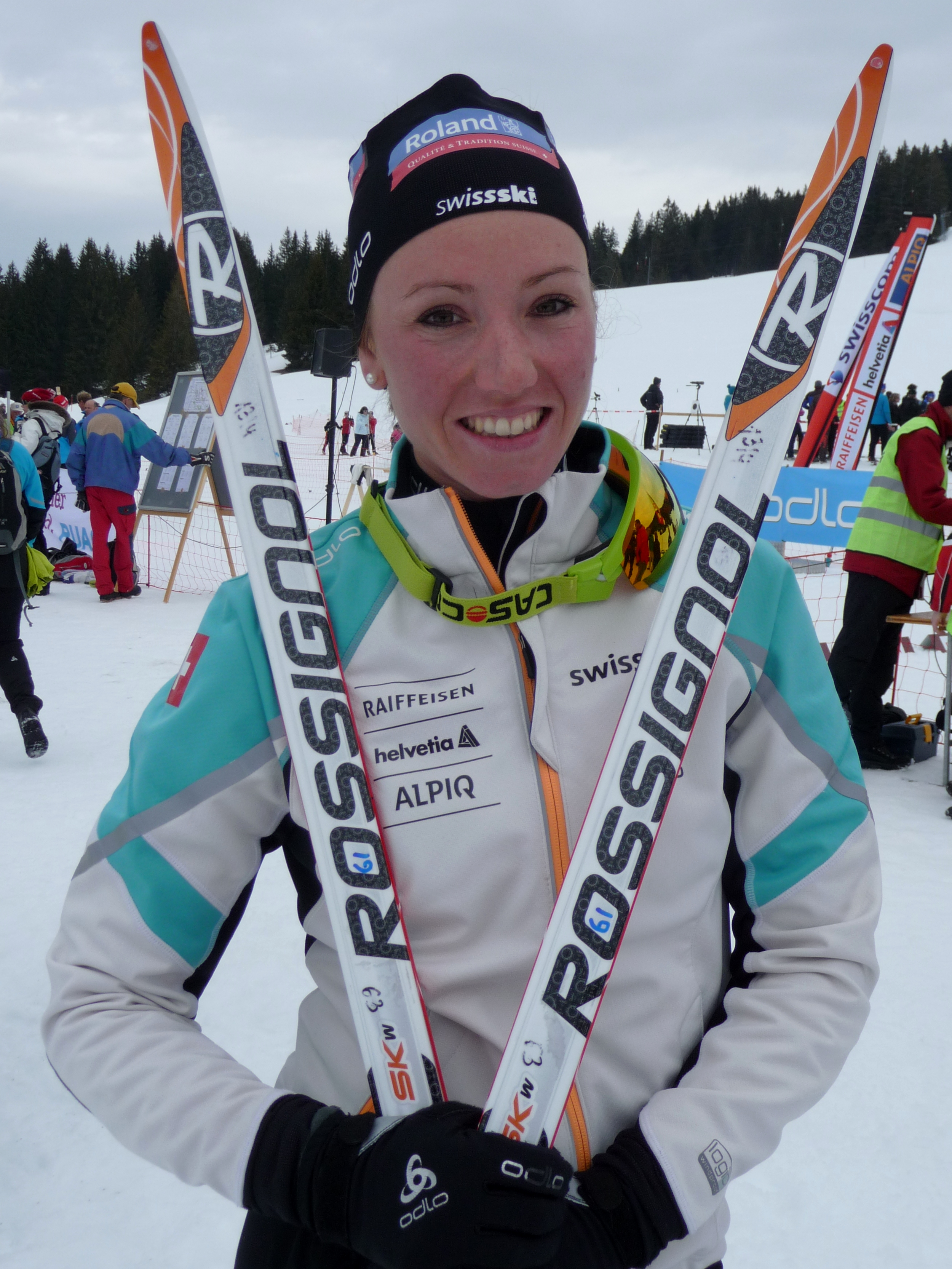 Swiss biathlete Selina Gasparin at National Championships in Biathlon 2013 in La Lécherette, Switzerland